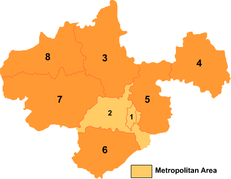 Map of Chuzhou in Anhui province.